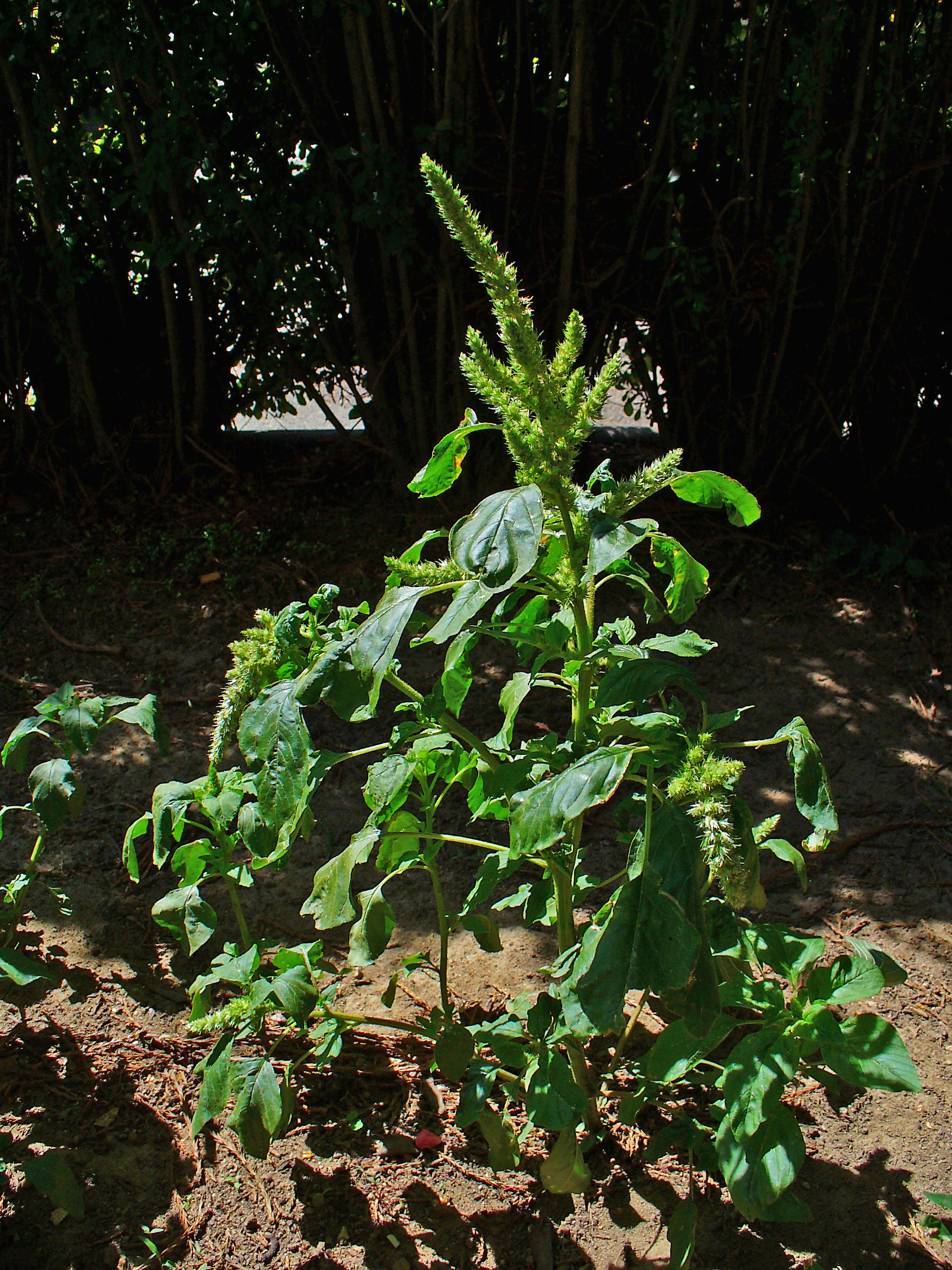 Amaranthus hybridus, Amaranthaceae, Smooth Amaranth, Smooth Pigweed, Red Amaranth, Slim Amaranth, habitus. Karlsruhe, Germany.